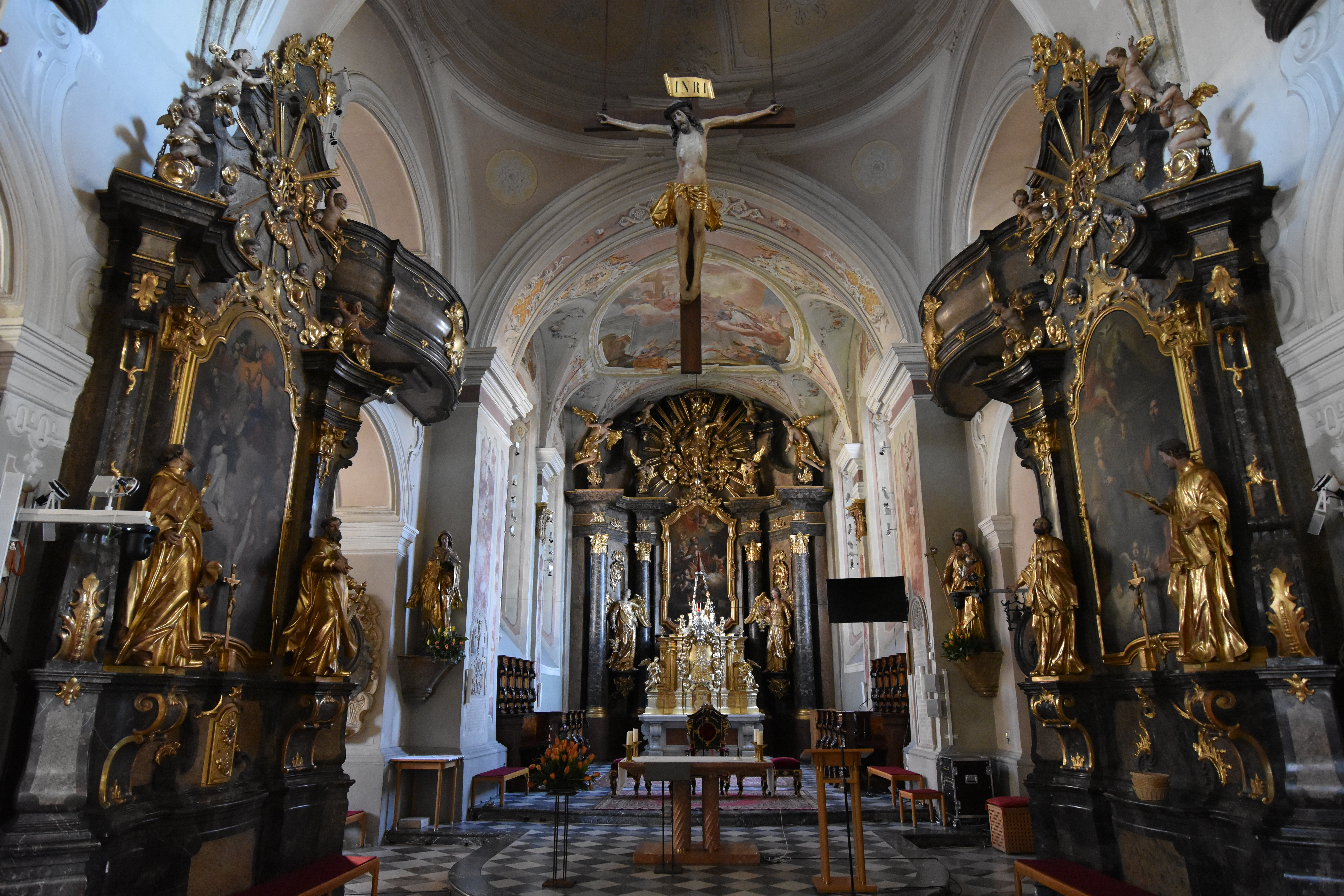 Church Hartberg - Interior